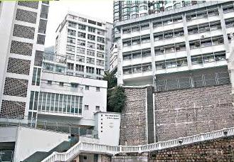 Raimondi College Main buildings